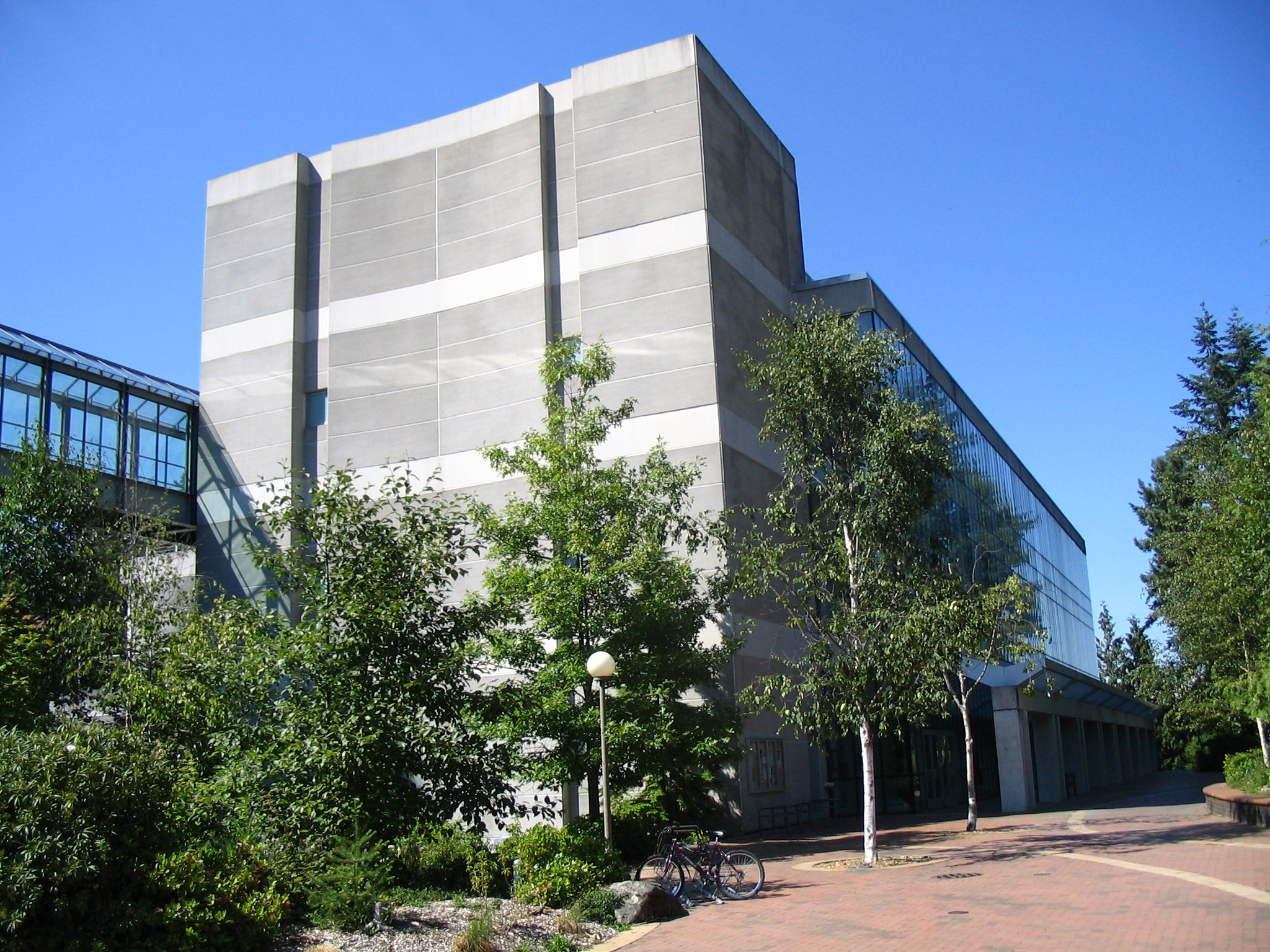 Chemistry Building, Western Washington University.